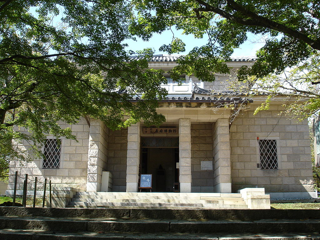 Shimonoseki Chofu Museum